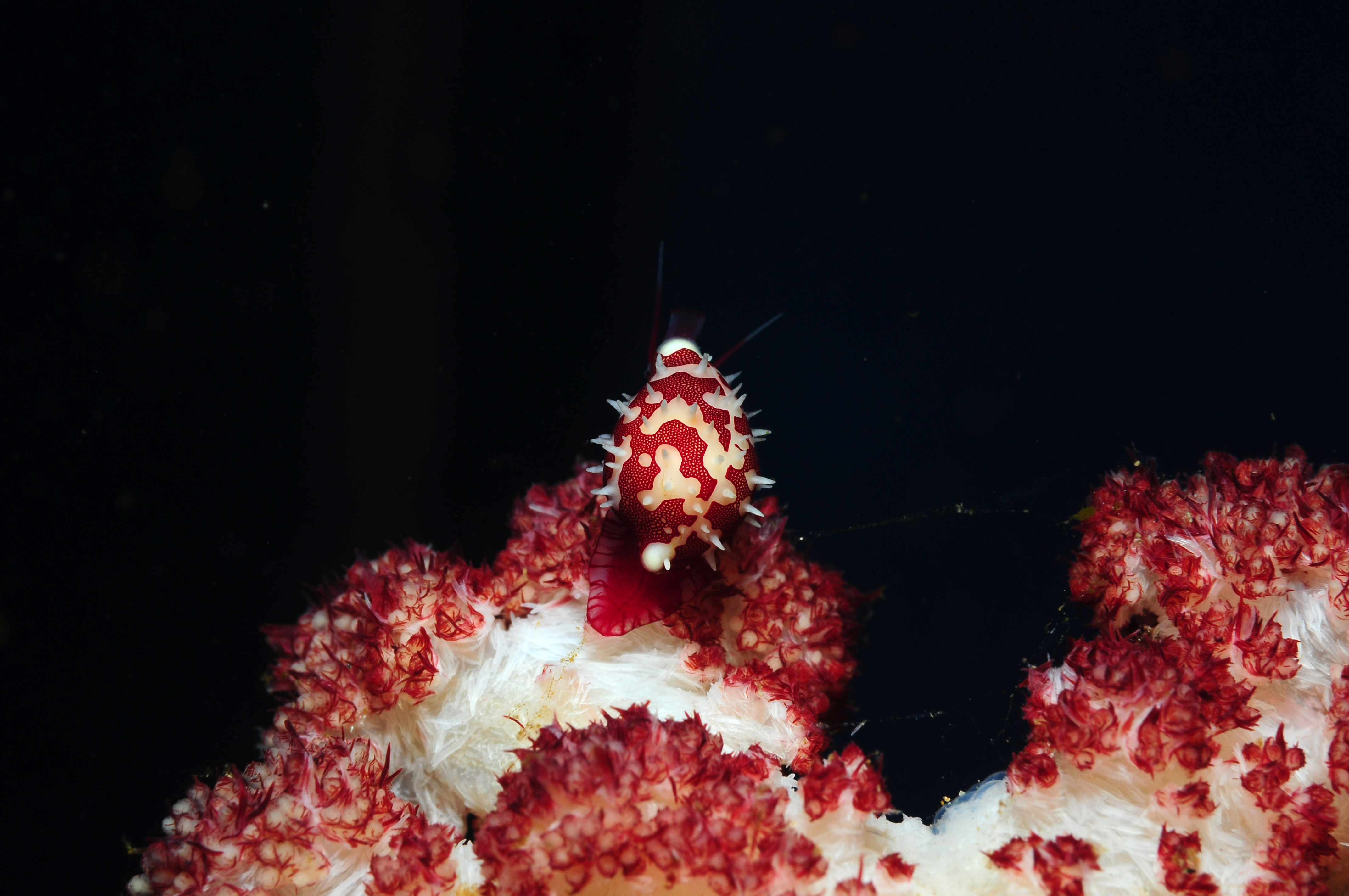 A false cowry (Diminovula culmen) inhabiting a soft coral (Dendronephthya sp.) in the author's aquarium.